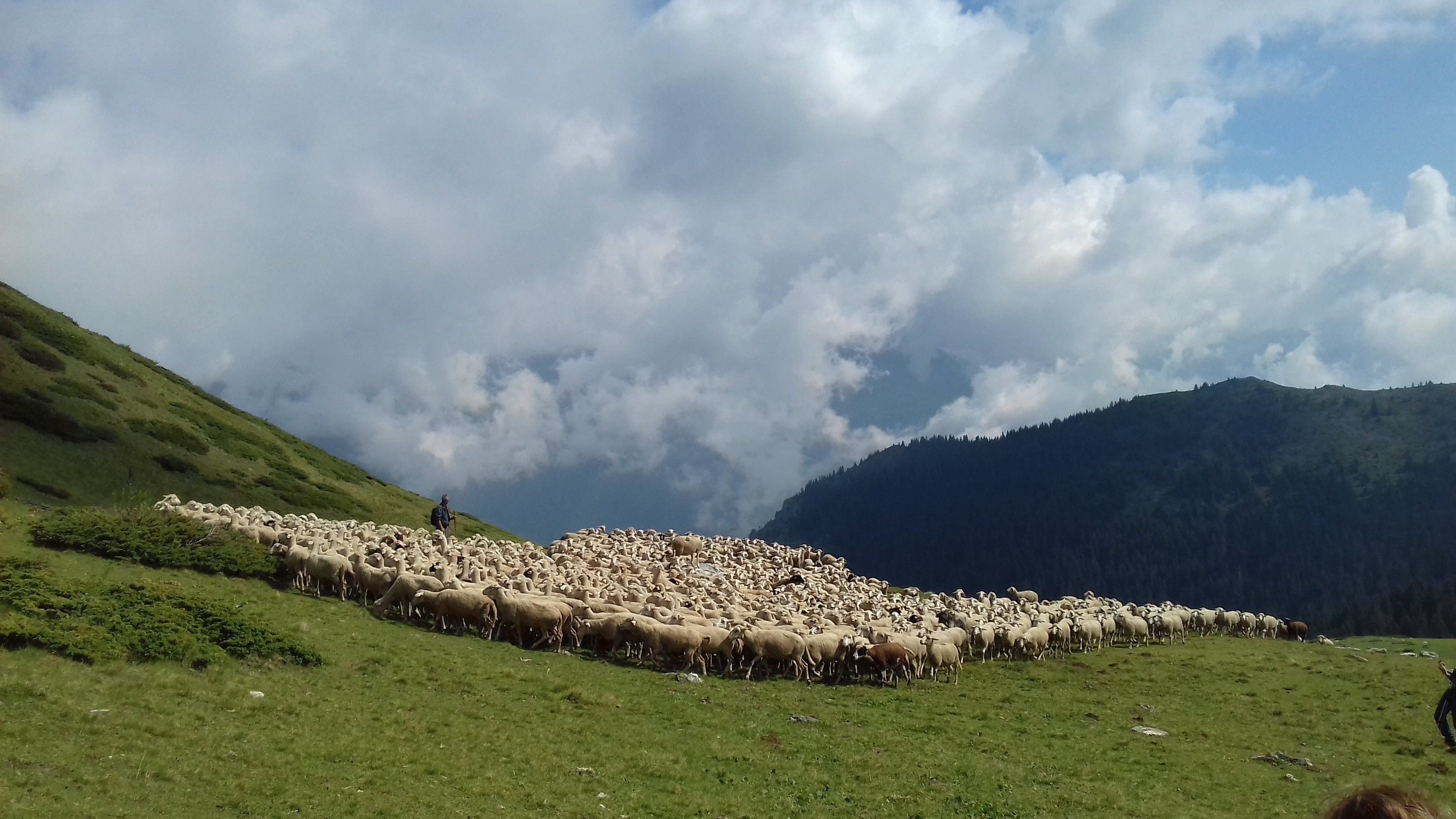 A Herd of sheep on Shar Mountain, Macedonia